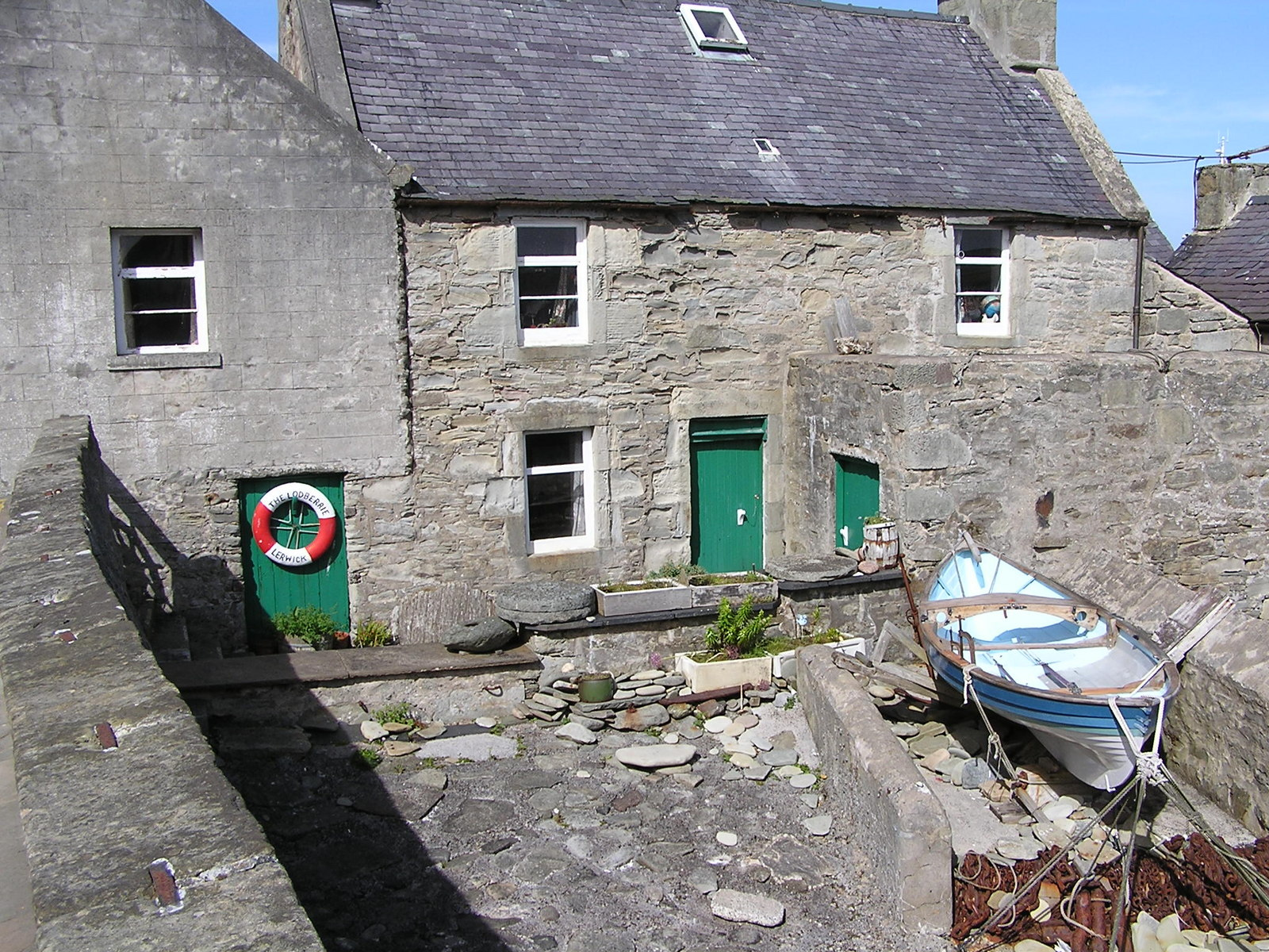 The Lodberrie, Commercial Street